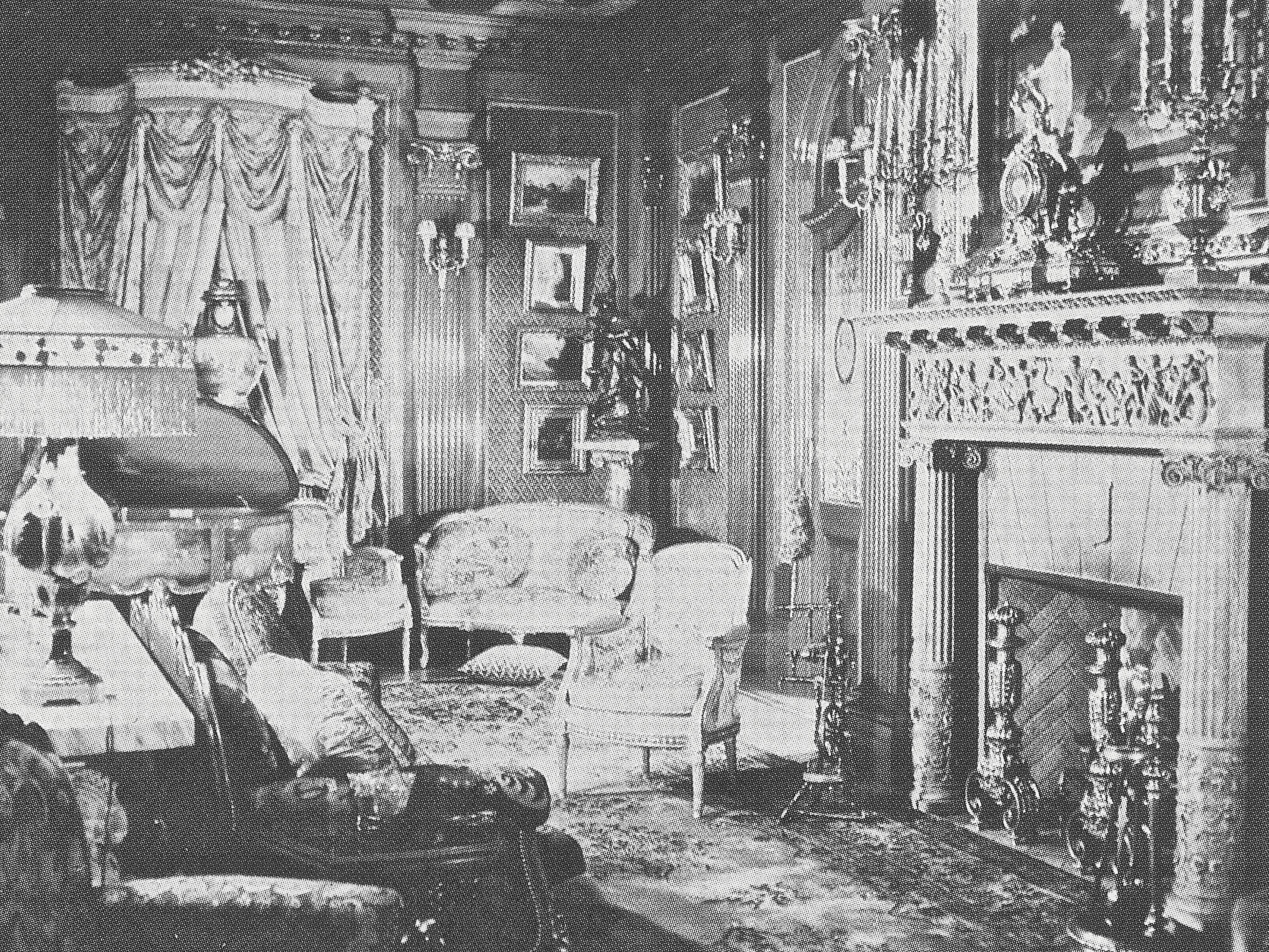 Living room (1940s), Marius Dufresne House (Château Dufresne), 4040 Sherbrooke Street East, Montreal, Quebec, Canada.